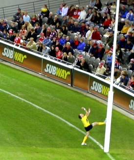 Aussie Rules Football : referee throws a ball back into the field when it goes out of bounds. Cropped version.